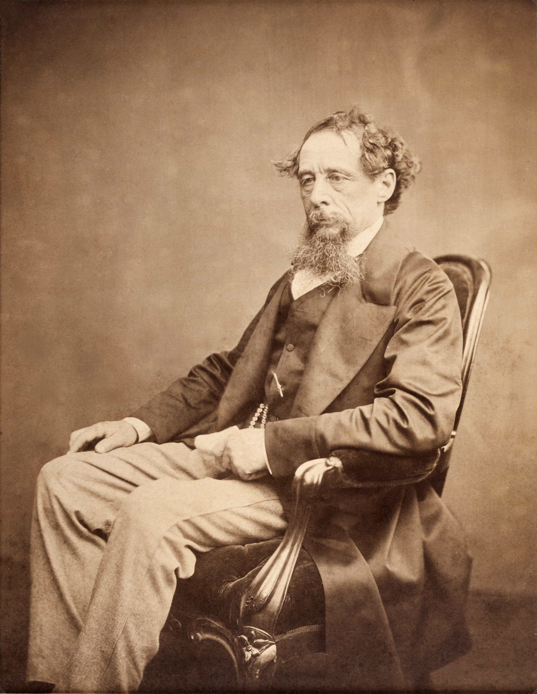 Albumen photograph of Charles Dickens, circa 1860s, seated in an armchair and looking to his left.